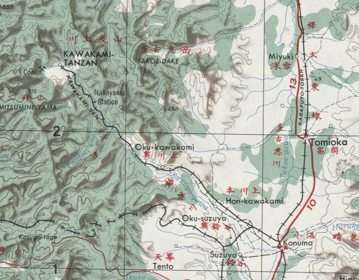 List from Eastern Siberia AMS Topographic Maps. Series N504, U.S. Army Map Service, 1947